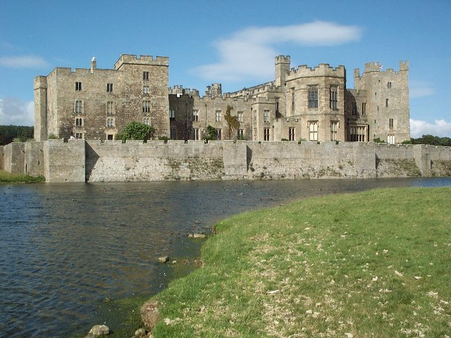 Raby Castle. A fortified home, the Nevilles having been granted crenellation rights in 1378AD.